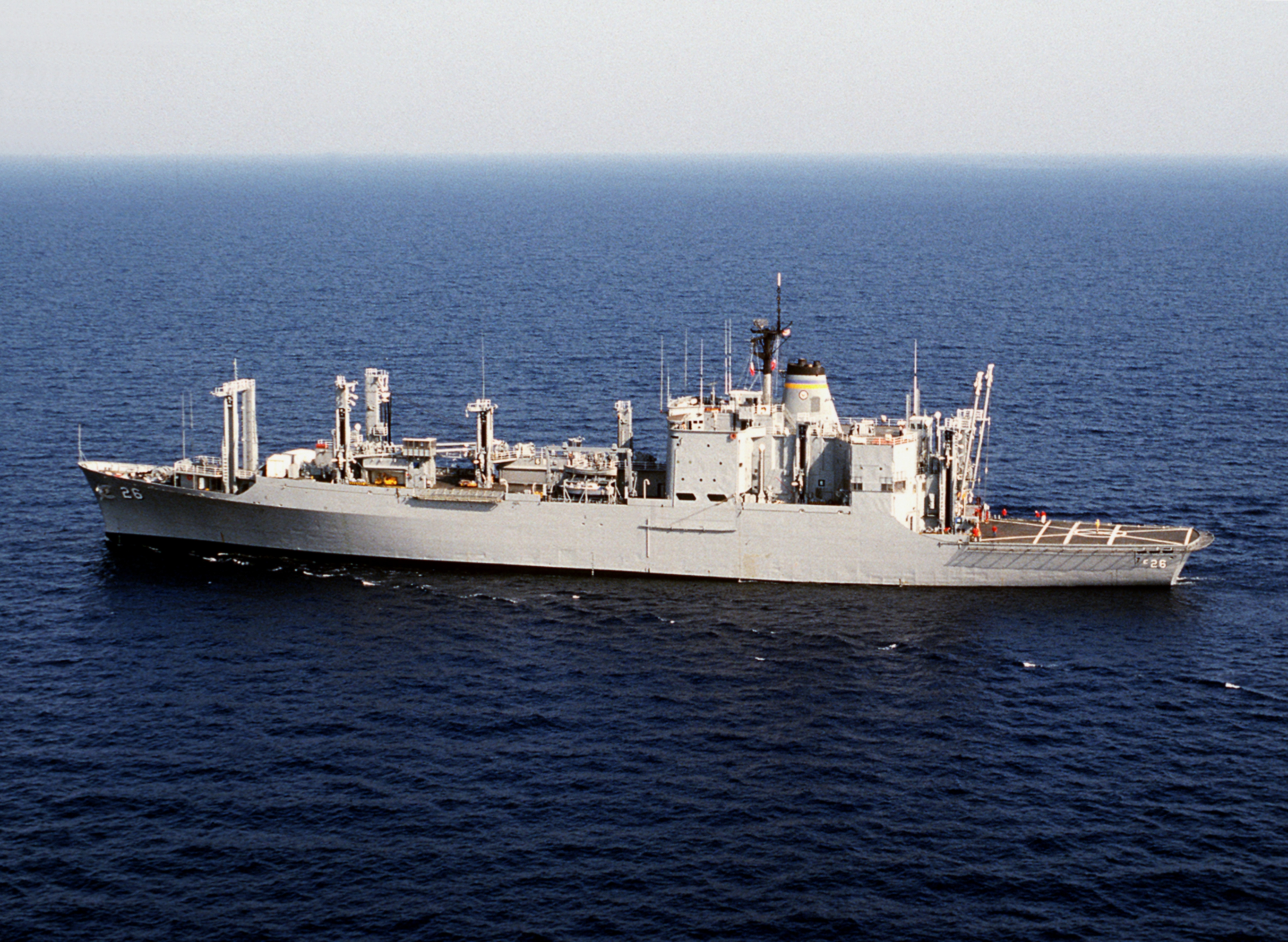 The U.S. Military Sealift Command ammunition ship USNS Kilauea (T-AE-26) underway.